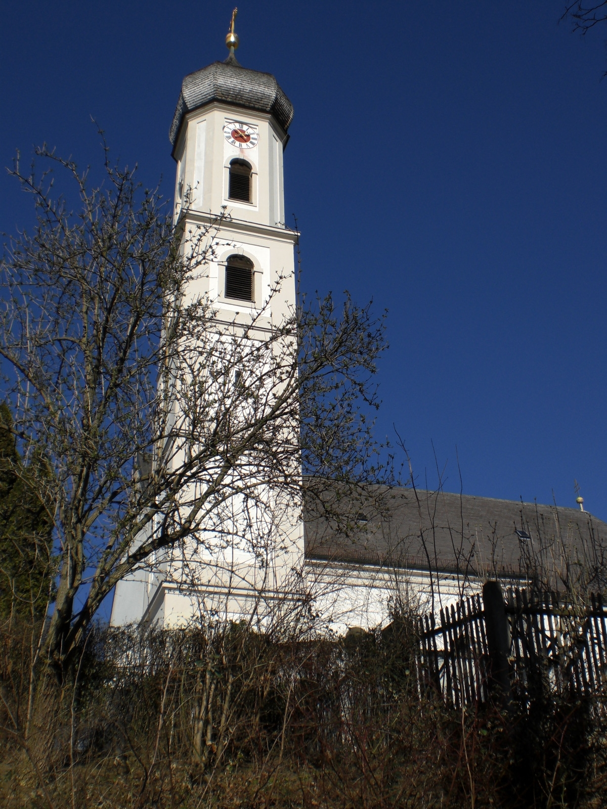 Unterföhring, view of St Valentine's Parish Church from south-west.